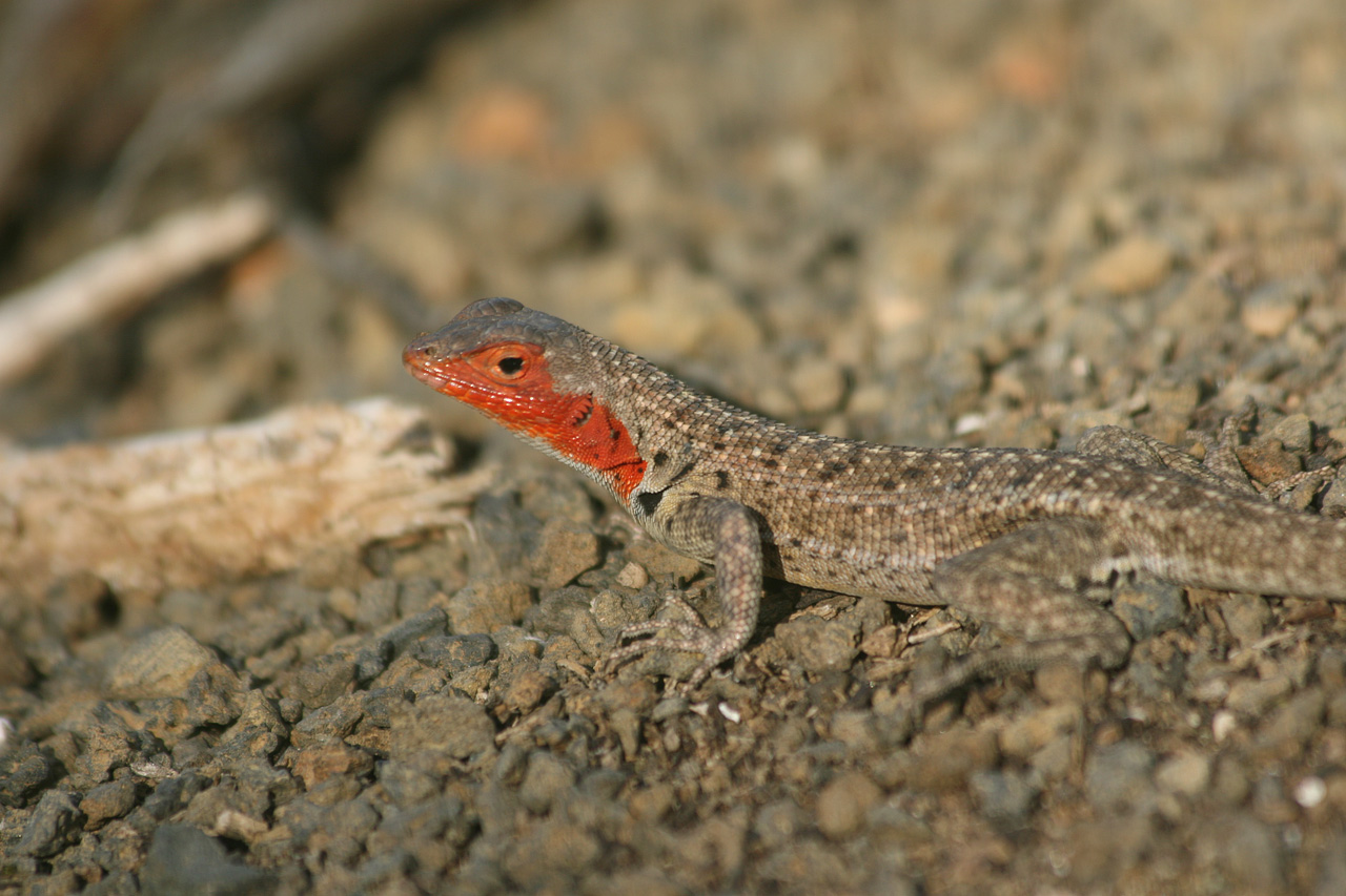 Female Floreana lava lizard (Tropidurus grayi aka Microlophus grayi) photographed by Tad Boniecki on Floreana island, Galapagos, Ecuador, February 2007.